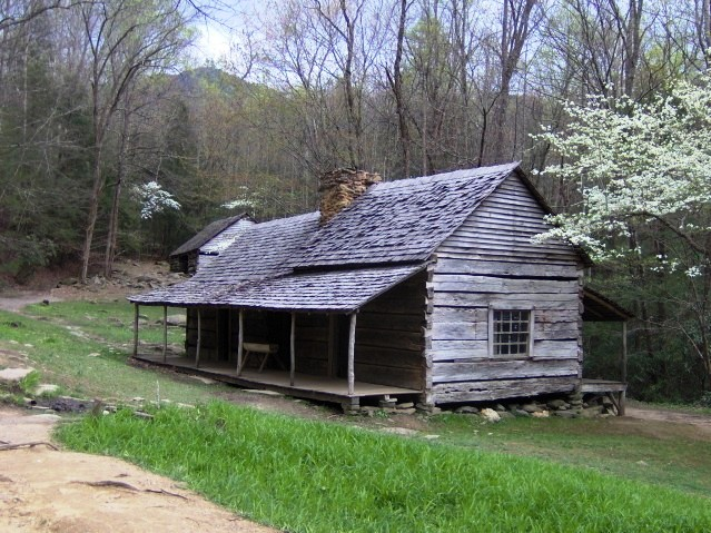 The Noah "Bud" Ogle Cabin near Cherokee Orchard in the Sugarlands, GSMNP. The first part of the cabin was built in the mid-1880s, with a second half added later. Ogle's barn is in the background, with Bullhead Mountain rising in the distance.